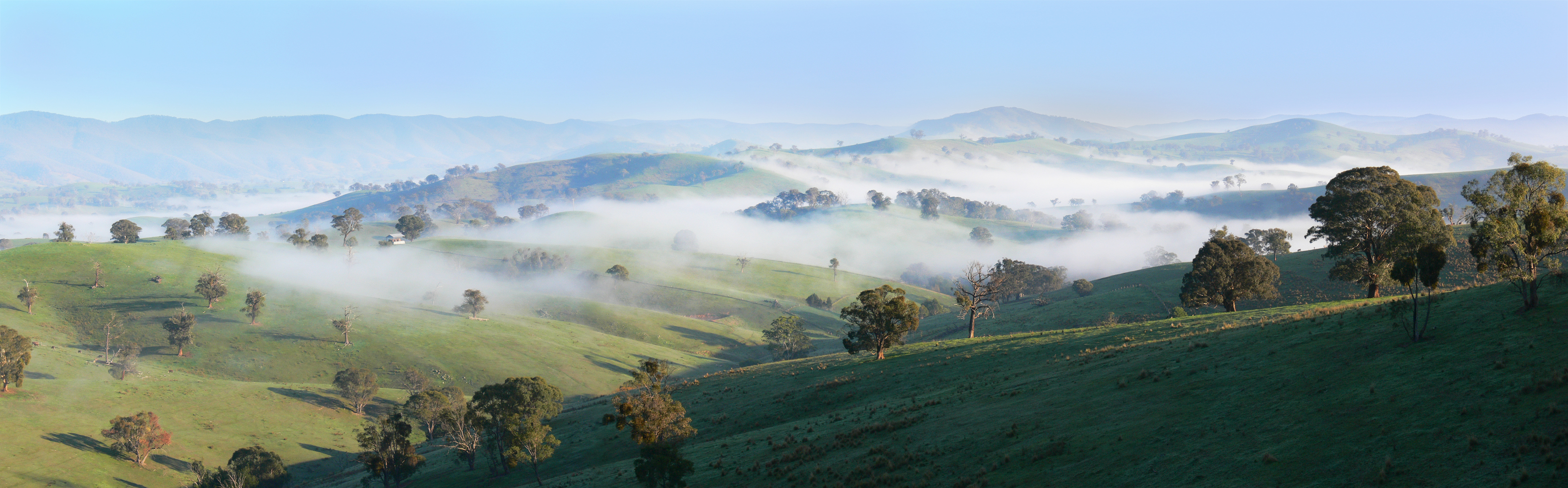 A misty morning in Ensay/Swifts Creek region in Australia.